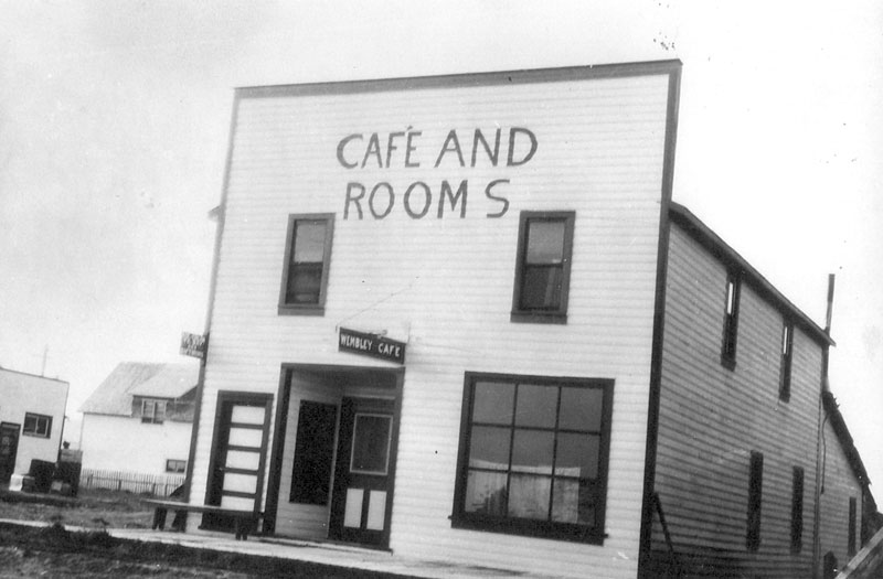 Wong's Café in Wembley, Alberta, with rooms available on the second floor.